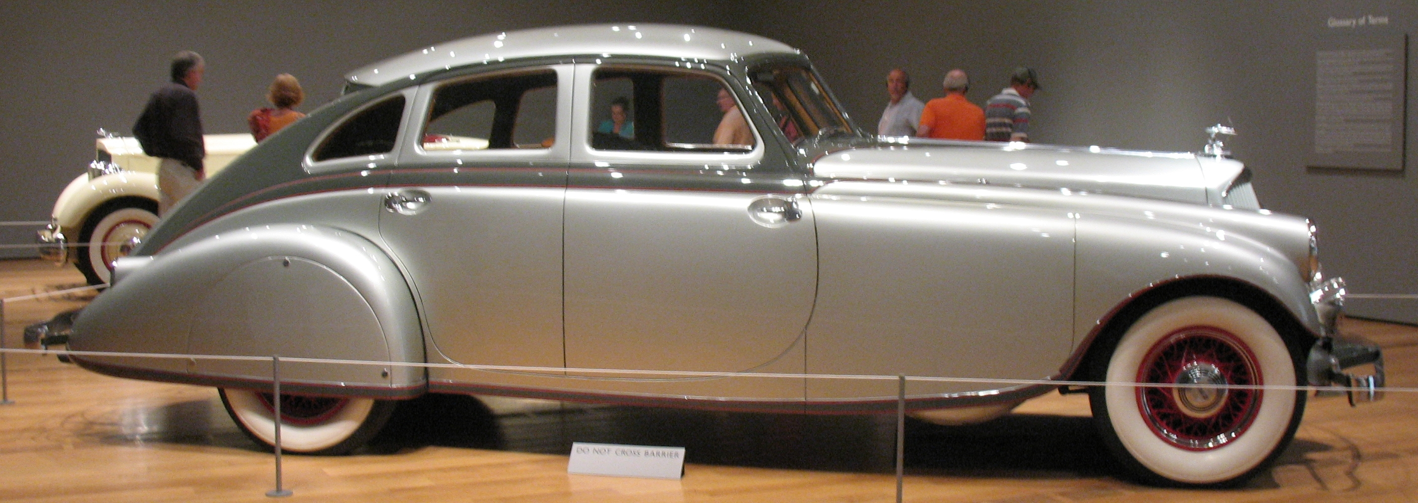 1933 Pierce-Arrow Silver Arrow The new Silver Arrow pioneered modern trends with its low roofline, rounded door openings, envelope front fenders, and flat body sides that concealed twin spare tires. A Silver Arrow was the pace car for the 1933 Indy 500. In 1933, Pierce-Arrow offered thirty-eight models.